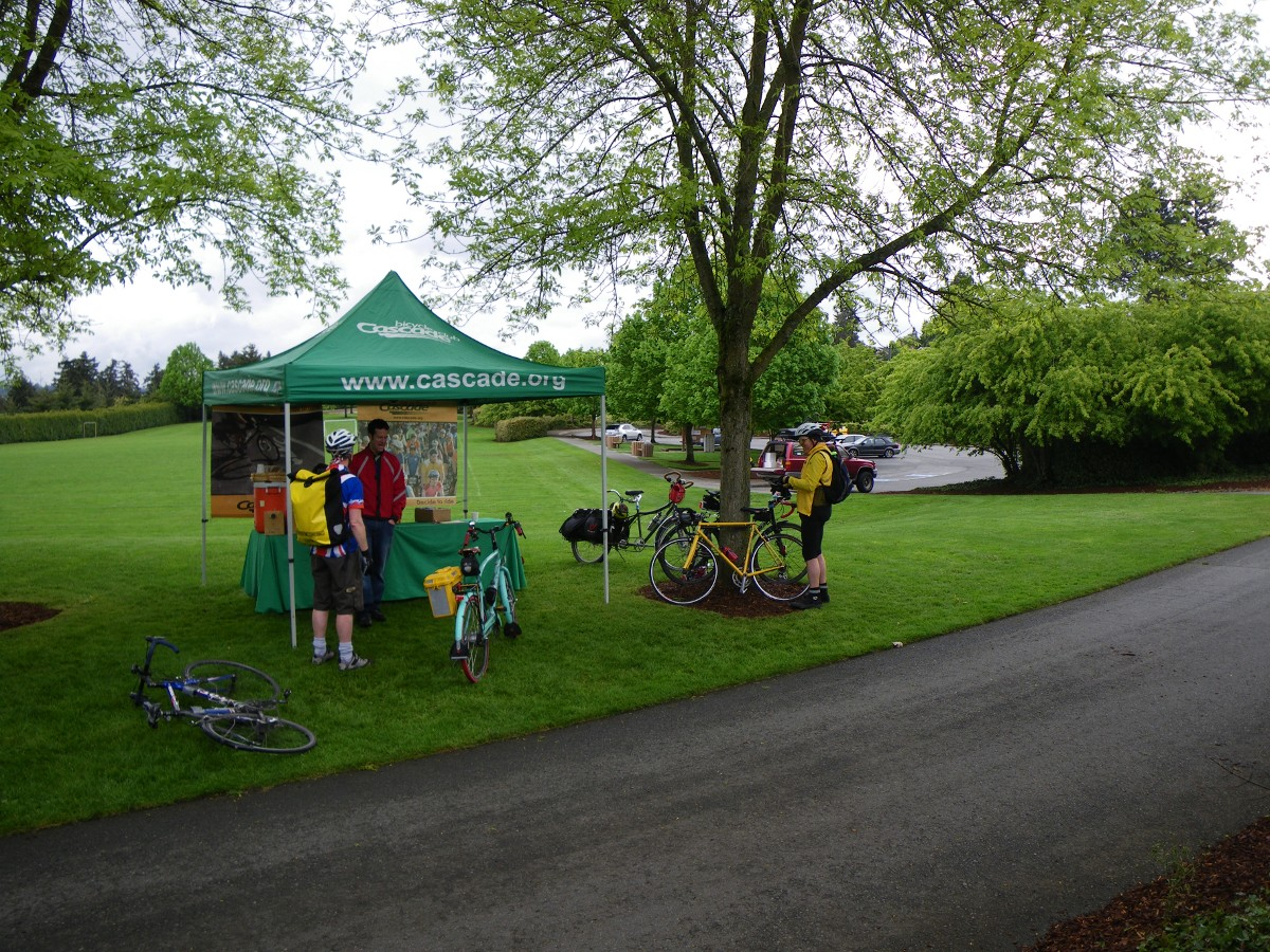 It's Bike Month, but not yet Bike to Work Day, so I was surprised to see a Cascade Bicycle Club booth set up on the I-90 Bicycle Trail this morning on Mercer Island, just off the floating bridge. They're trying to reach out to the novice bike commuters who are riding across the I-90 bridge instead of driving to avoid traffic backups while construction has the express lanes closed most of this month. Expect even worse traffic backups in July when the westbound main span is closed for expansion joint replacement. It's about ten minutes by bicycle from Mercer Island to the west end of the bridge, I suspect a lot of commuters stuck in hour-long backups could save time, money, and stress if they bike across and take a bus.